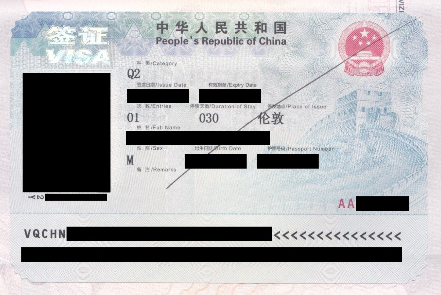 This visa is a scan of an old passport which was used issued a visa for China. Photograph and sensitive information were covered.